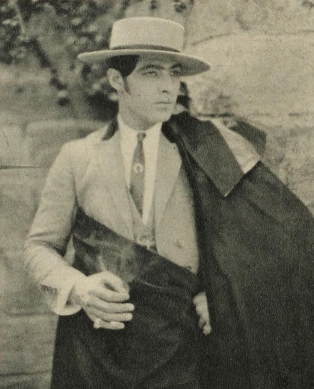 Published 1923